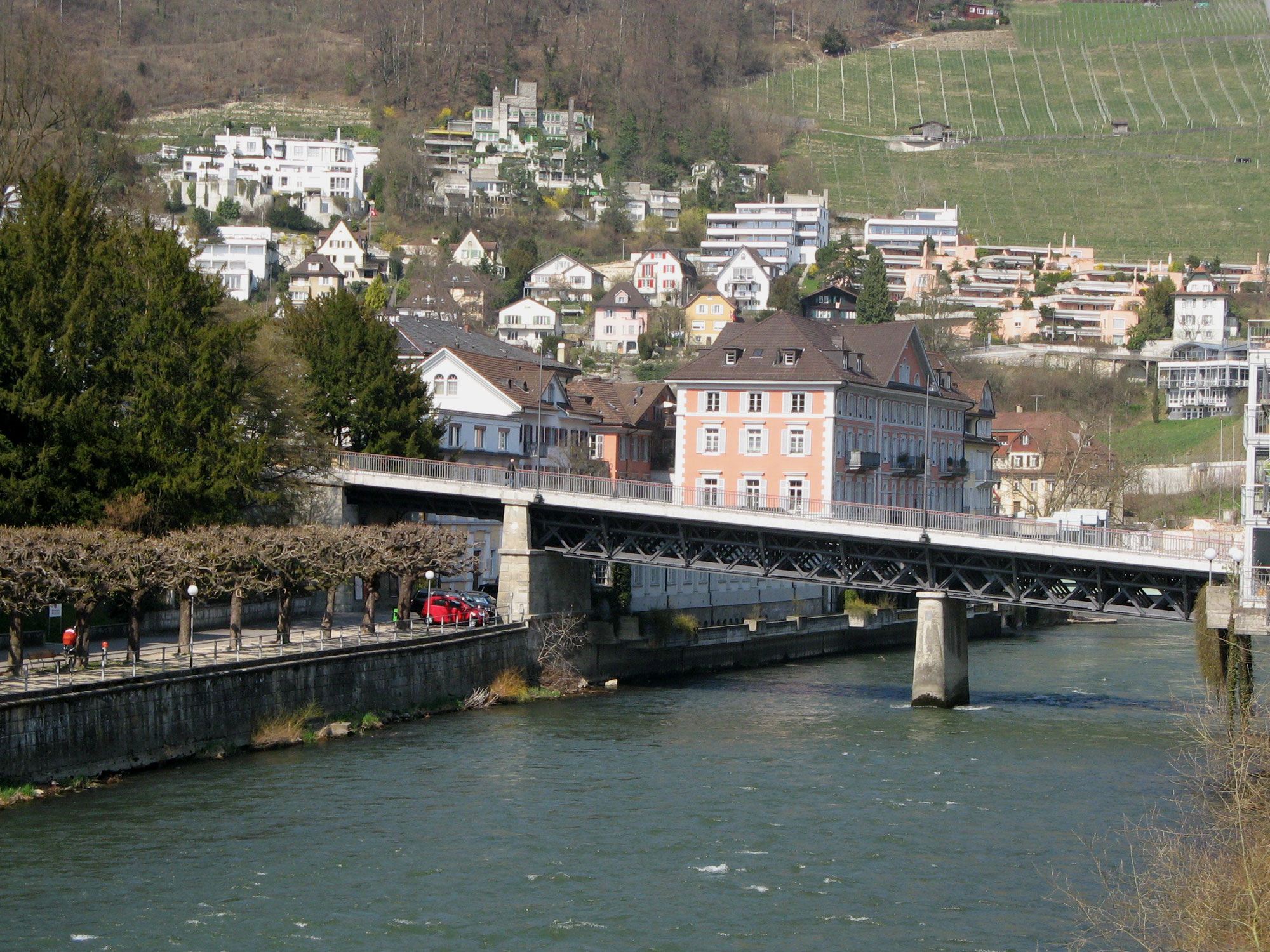 "Crooked bridge" across the Limmat river between Baden and Ennetbaden